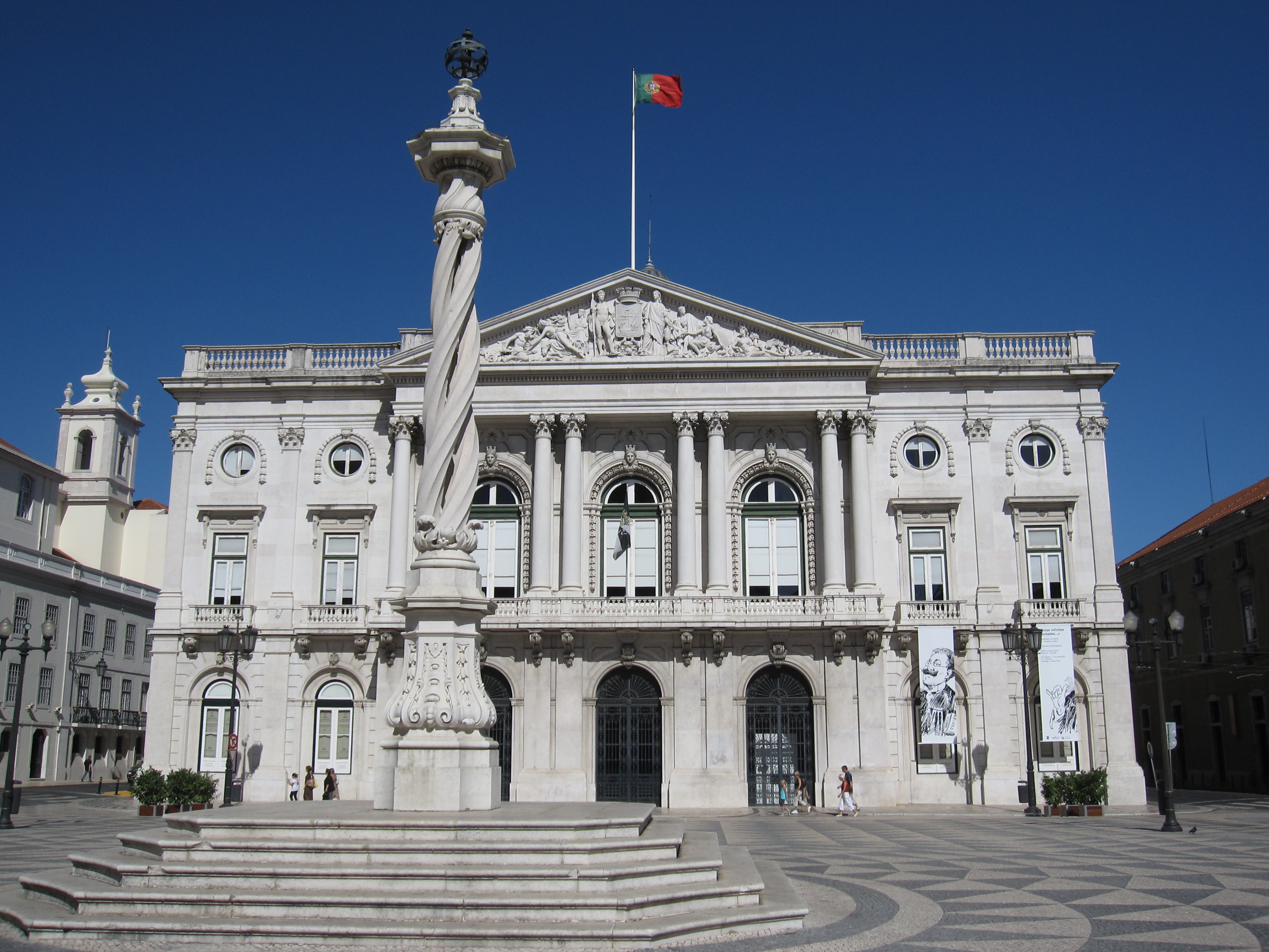 Outside the Lisbon City Hall, in the middle of the Praça do Município square, stands this interesting pillory with a spiral column built of a single block in the 18th century, and crowned with a gilt metal sphere.